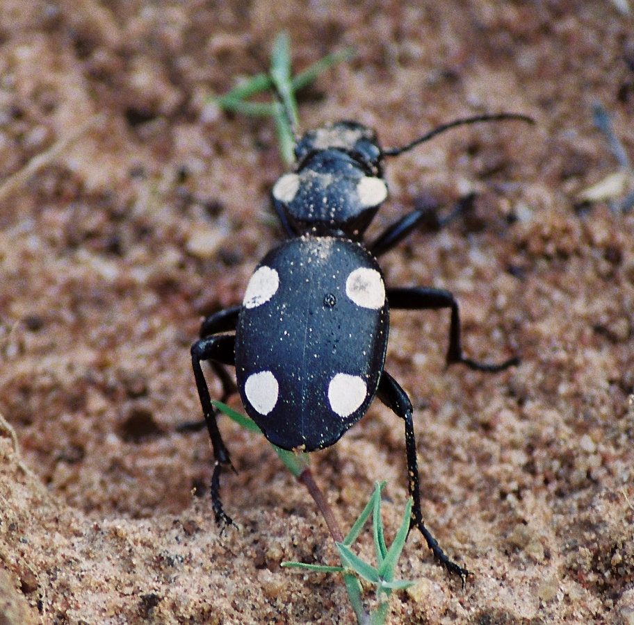 By: Rajeev B. Picture taken on the ground in a Mango Groove near Kotaballappalli Anthia sexguttata, Carabidae